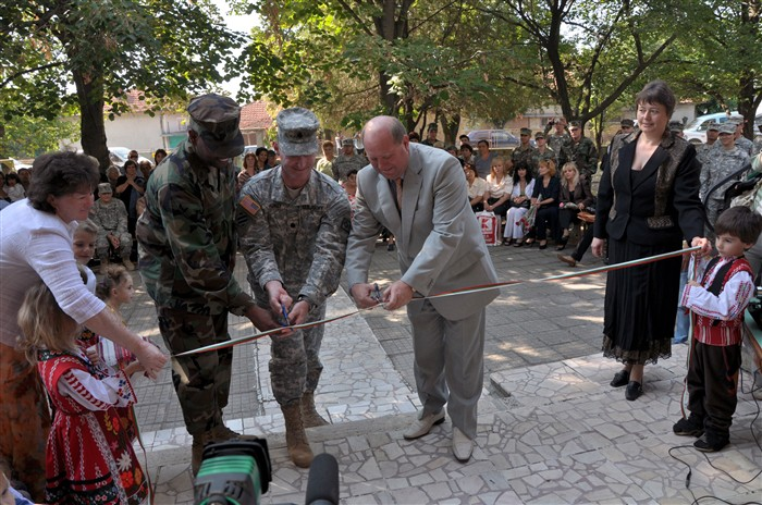 U.S. Navy Construction Electrician Chief Corey A. Stevens, U.S. Army Lt. Col. David Hurley, Mayor Mitko Andonov of the Straldja municipality, and Director Maria Dimitrova of Sinchec Kindergarten (left to right), participate in the ribbon-cutting ceremony Sept. 16 marking the official reopening of the kindergarten.